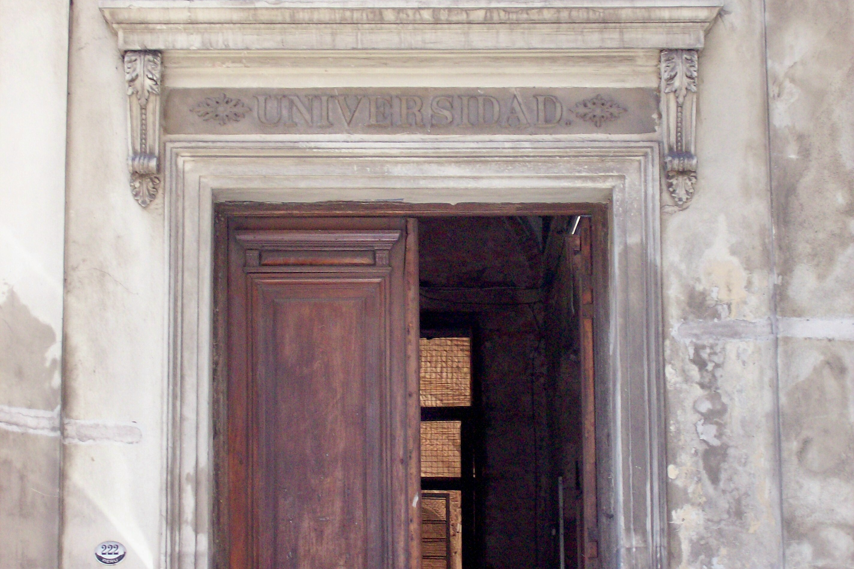 Manzana de las luces, in "Barrio de Monserrat", Buenos Aires, near Plaza de Mayo. Door and entrance to the inside patio, former Facultad de Arquitectura UBA, by Perú street.